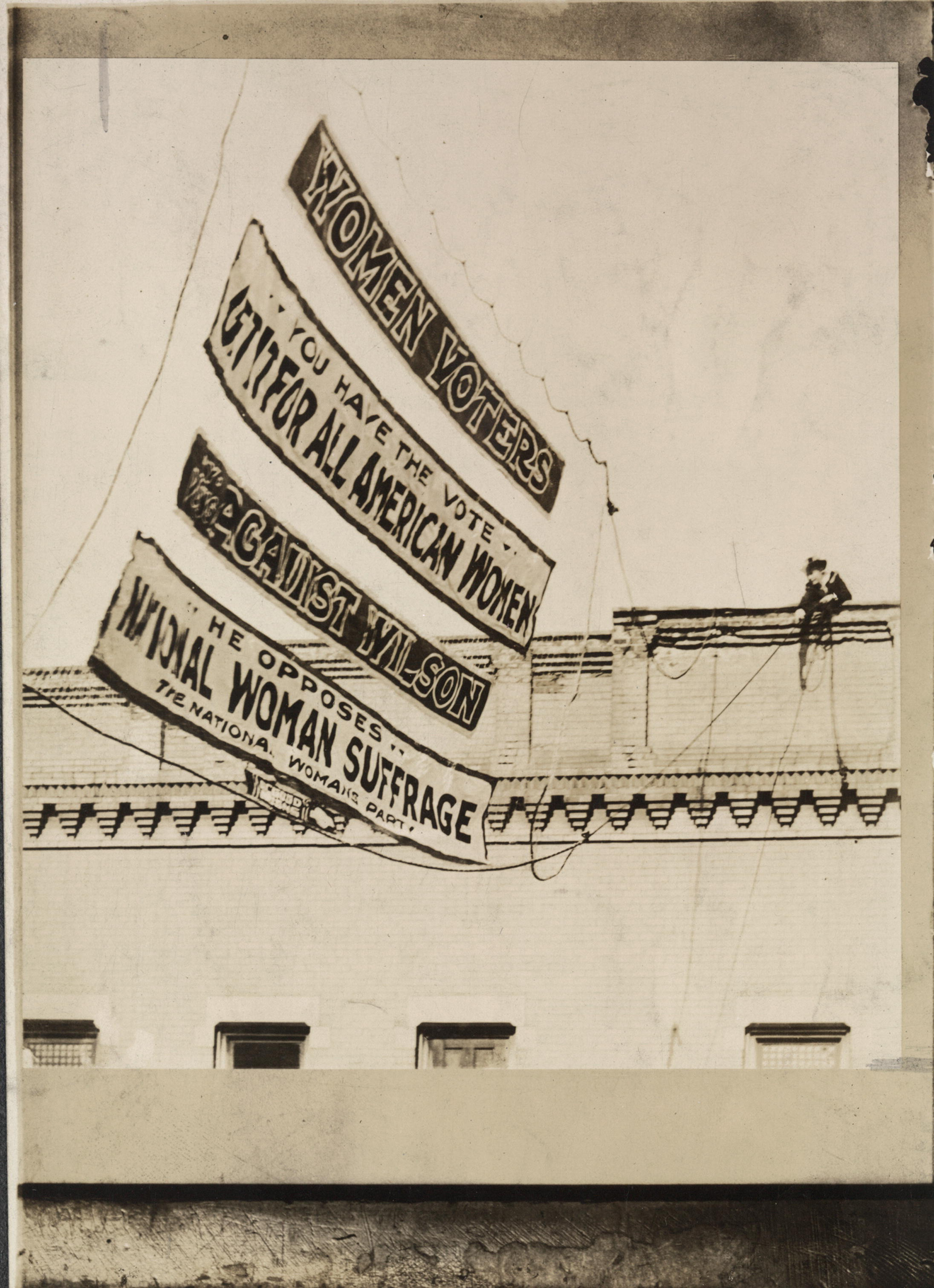 Summary: Photograph of banner hanging from building. Banner: "Women voters, you have the vote. Get it for all American women. Vote against Wilson. He opposes national woman suffrage. The National Woman's Party."